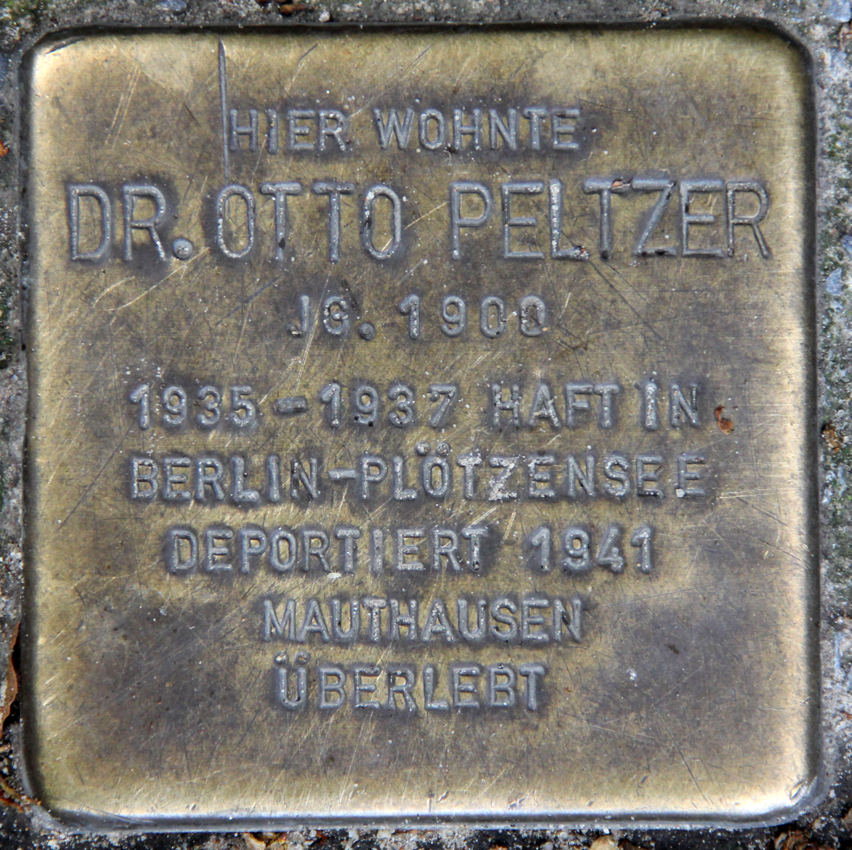 "Stolperstein" (stumbling block), Otto Peltzer, Jahnstraße 2, Berlin-Kreuzberg, Germany